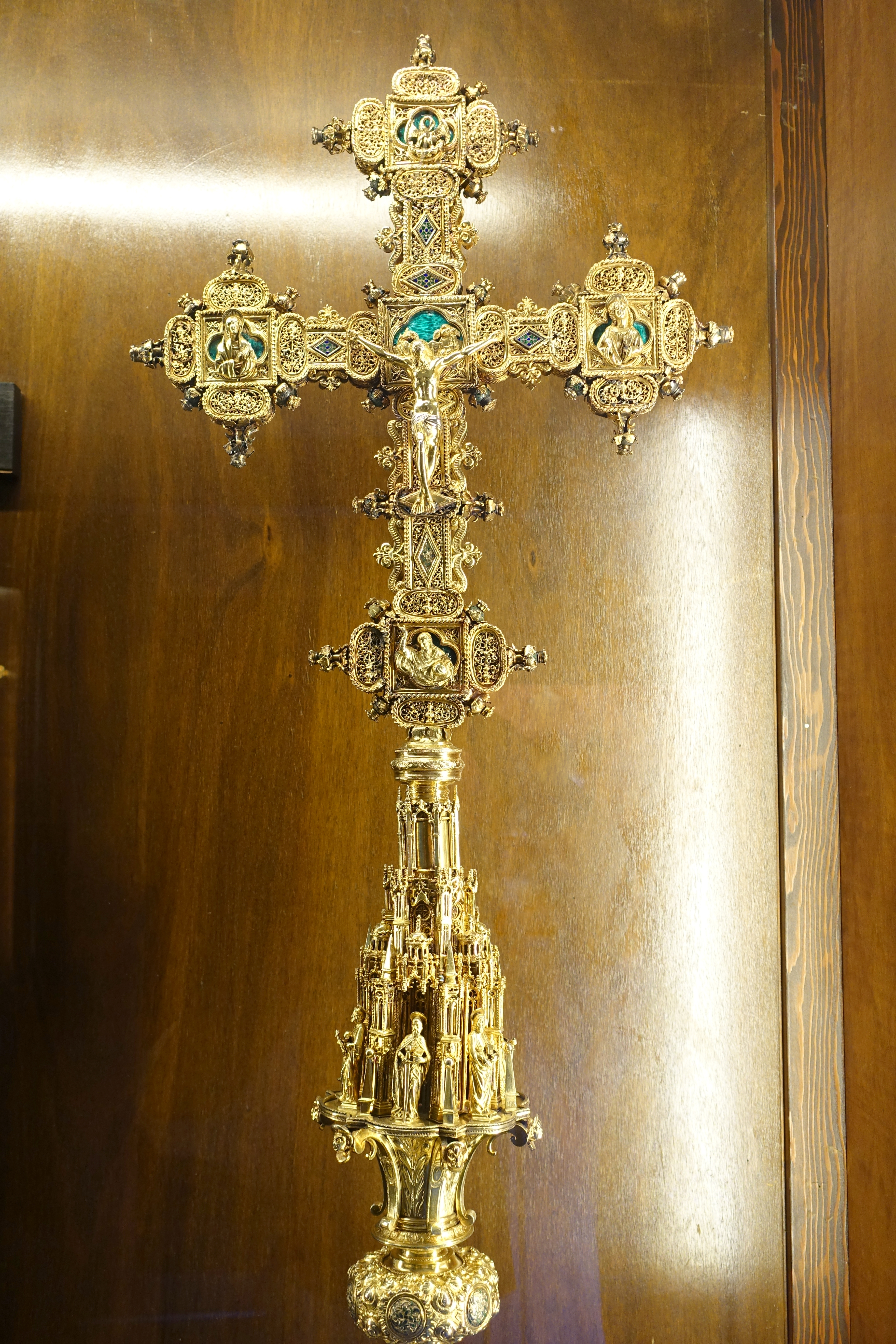 Treasure piece in the Capilla de Santa Teresa y tesoro, Mosque of Cordoba, Spain.